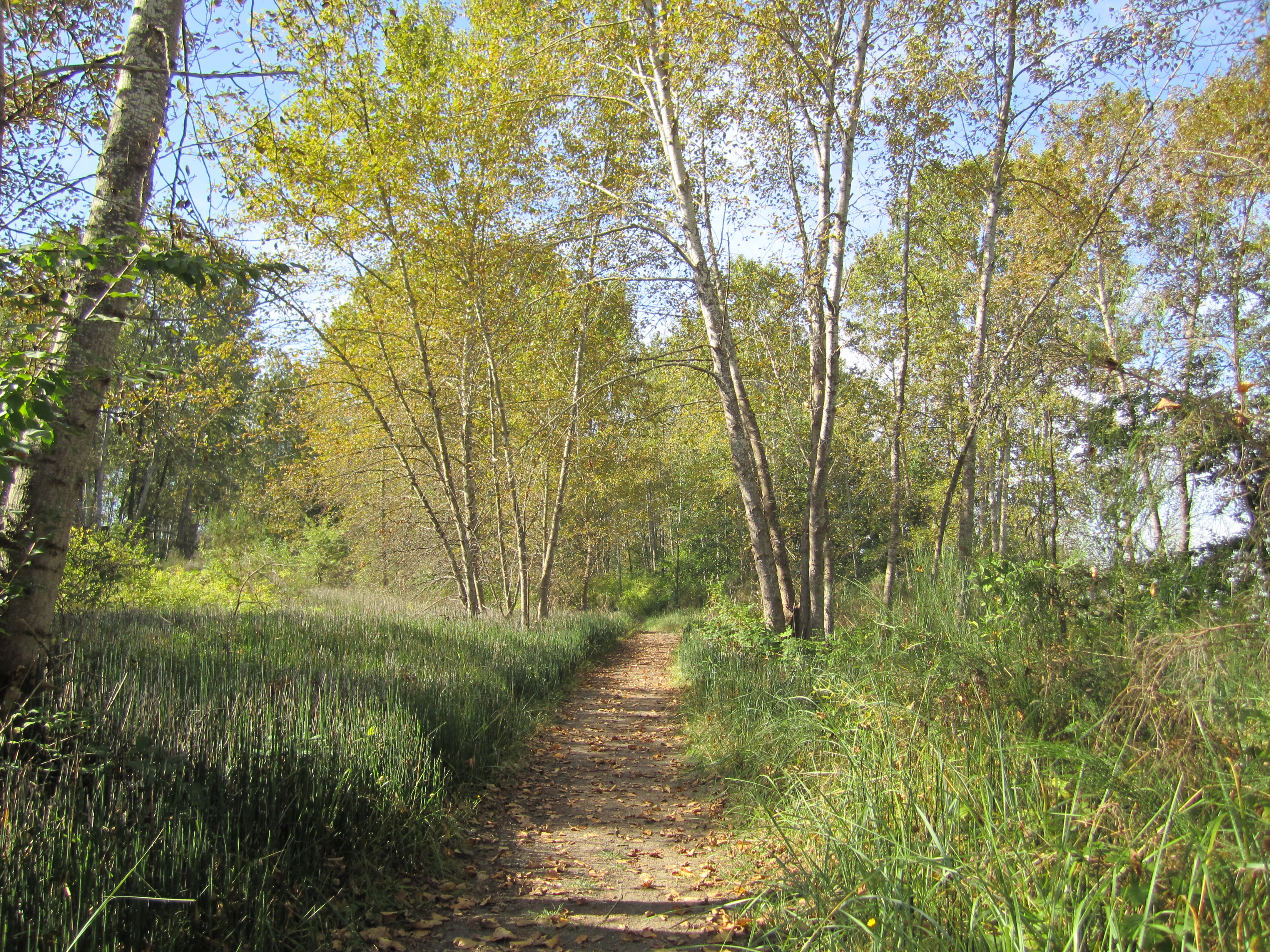 trail on Deas Island, near the George Massey Tunnel